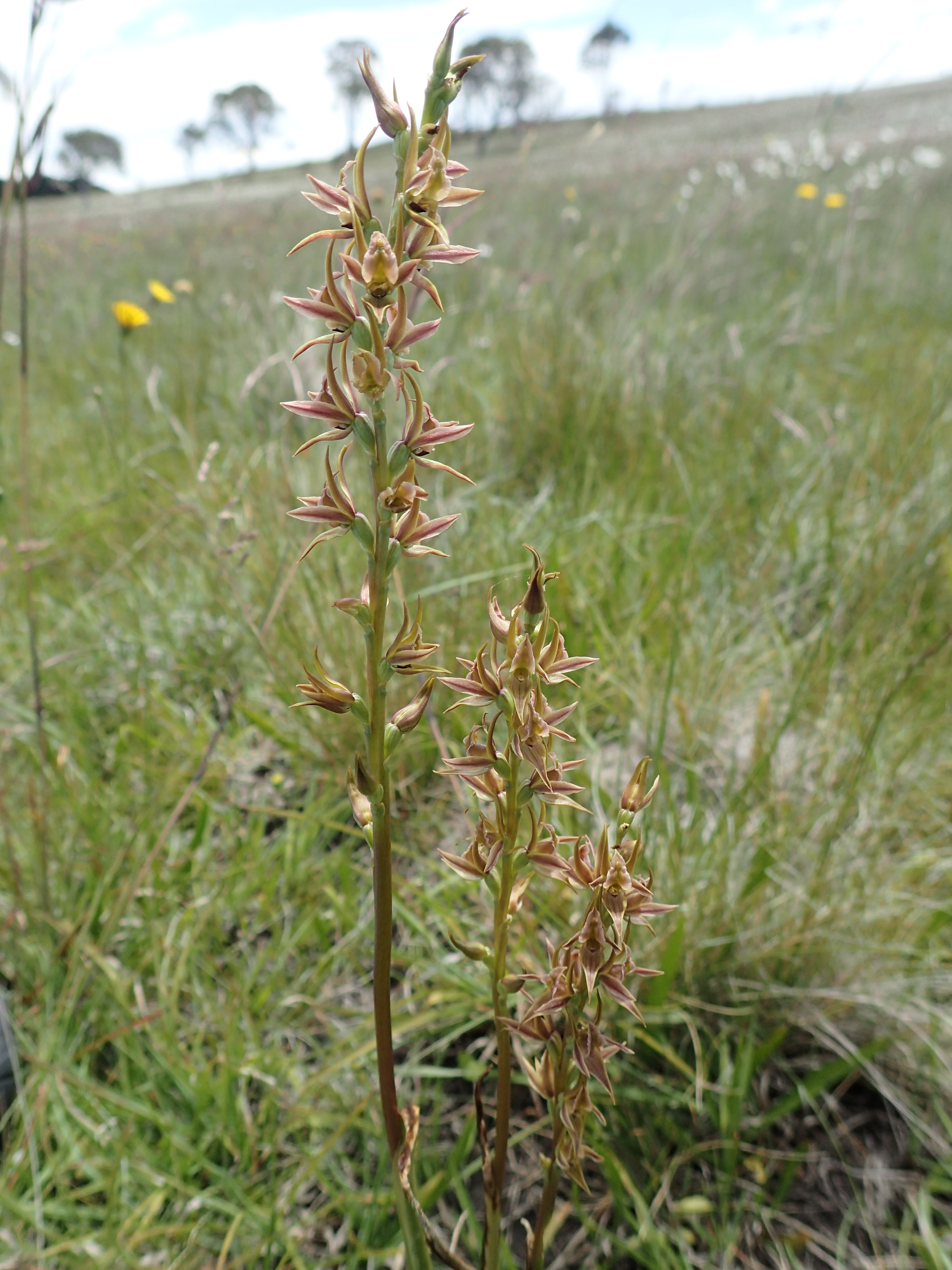 Prasophyllum solstitium growing about 15km east of Guyra